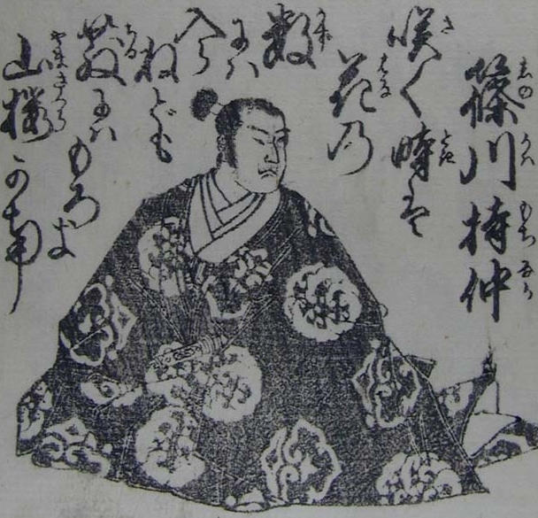 motinaka_asikaga